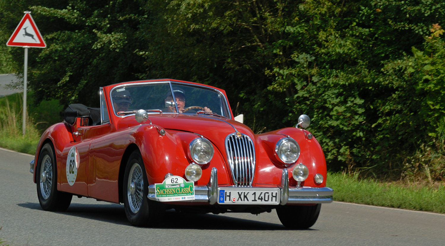 Jaguar XK 140 DHC from 1955 during the Saxony Classic Rallye 2010